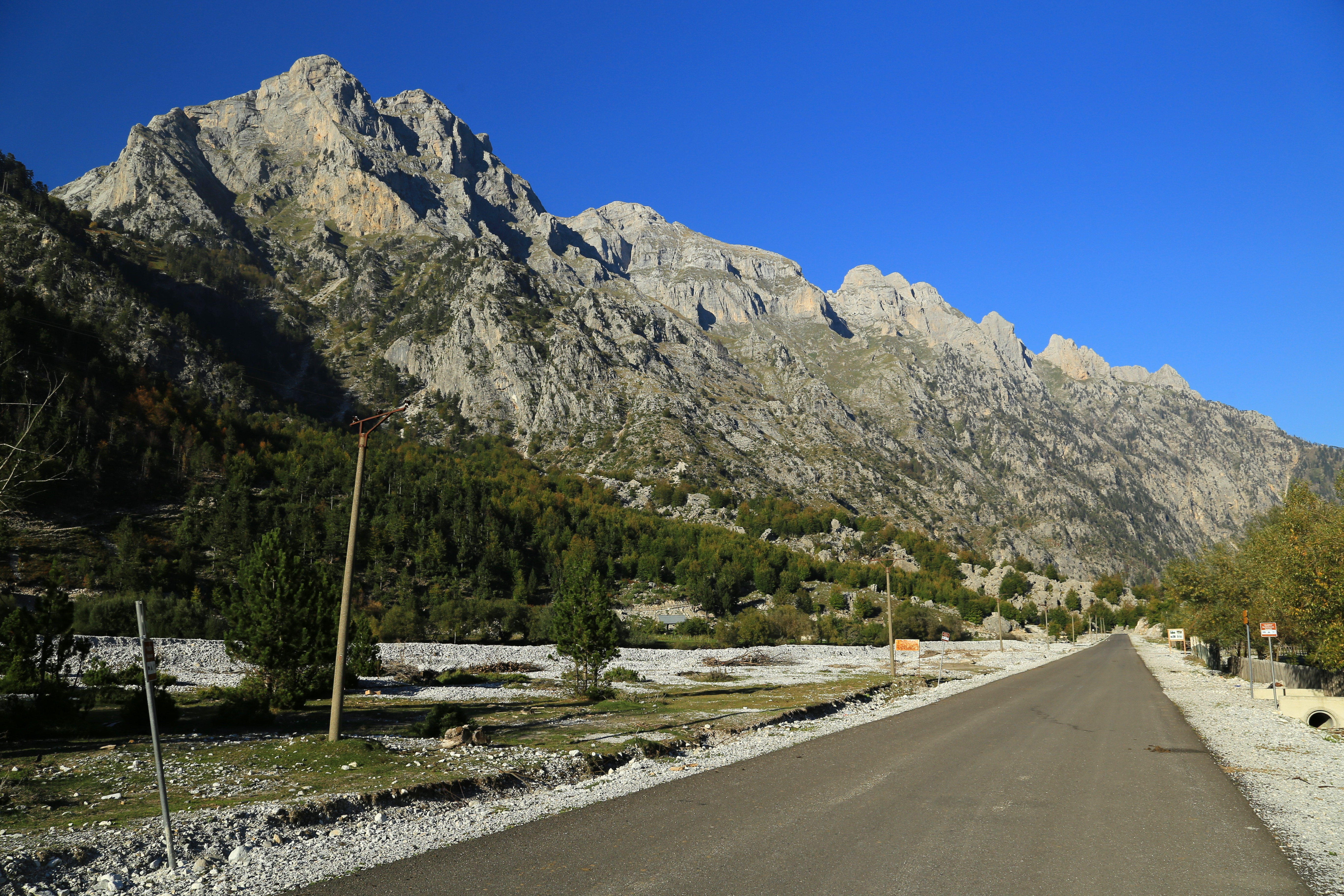 Photograph of the newly build road in Valbona Valley, Valbonë Valley National Park